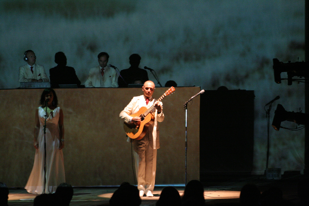 From Flickr: O Projecto Gotan fez um show em Brasília no domingo --- Gotan Project presented us with a show last sunday